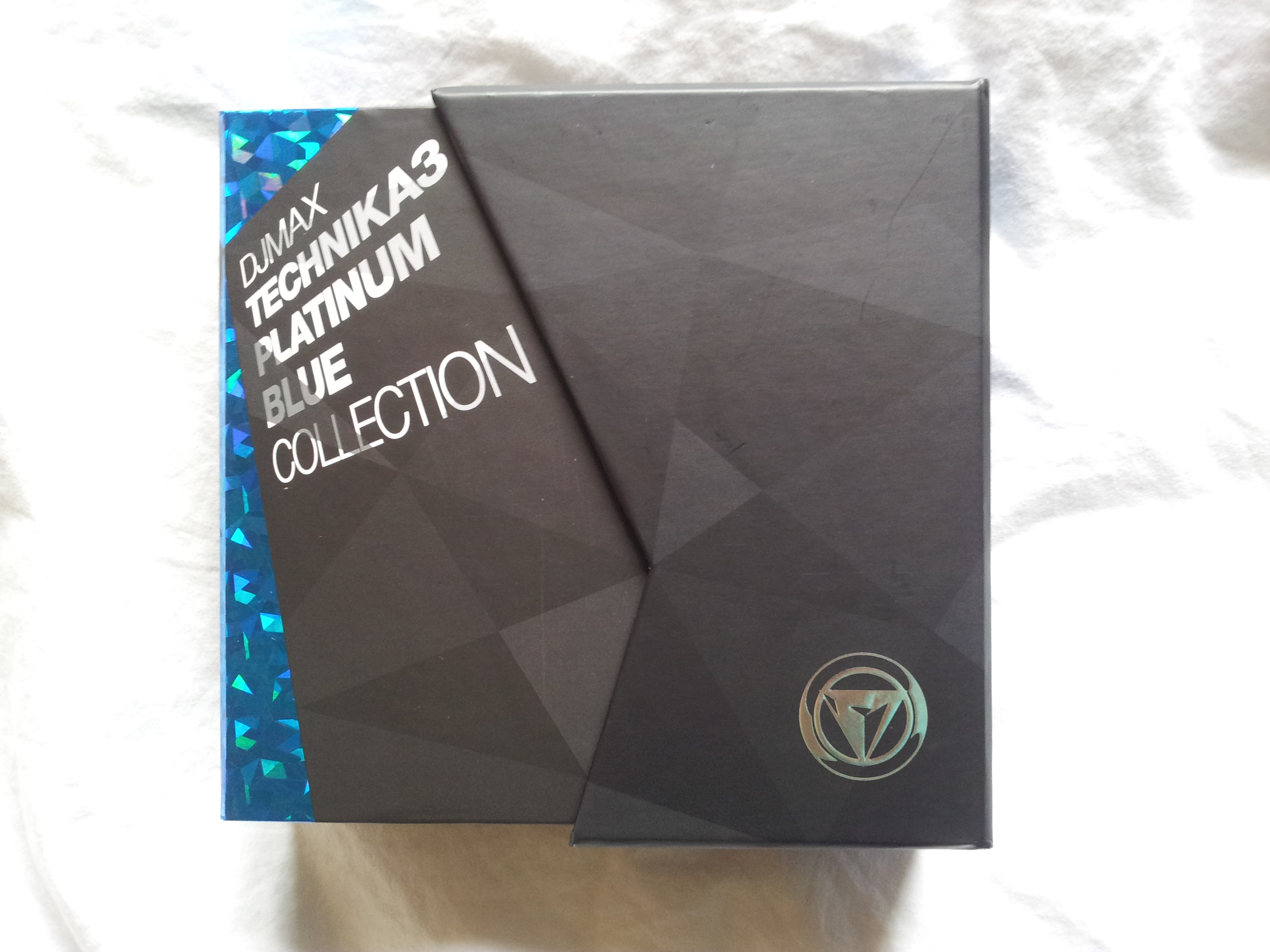 Limited edition collectors box for the DJMax Technika 3 Platinum Blue Collection.